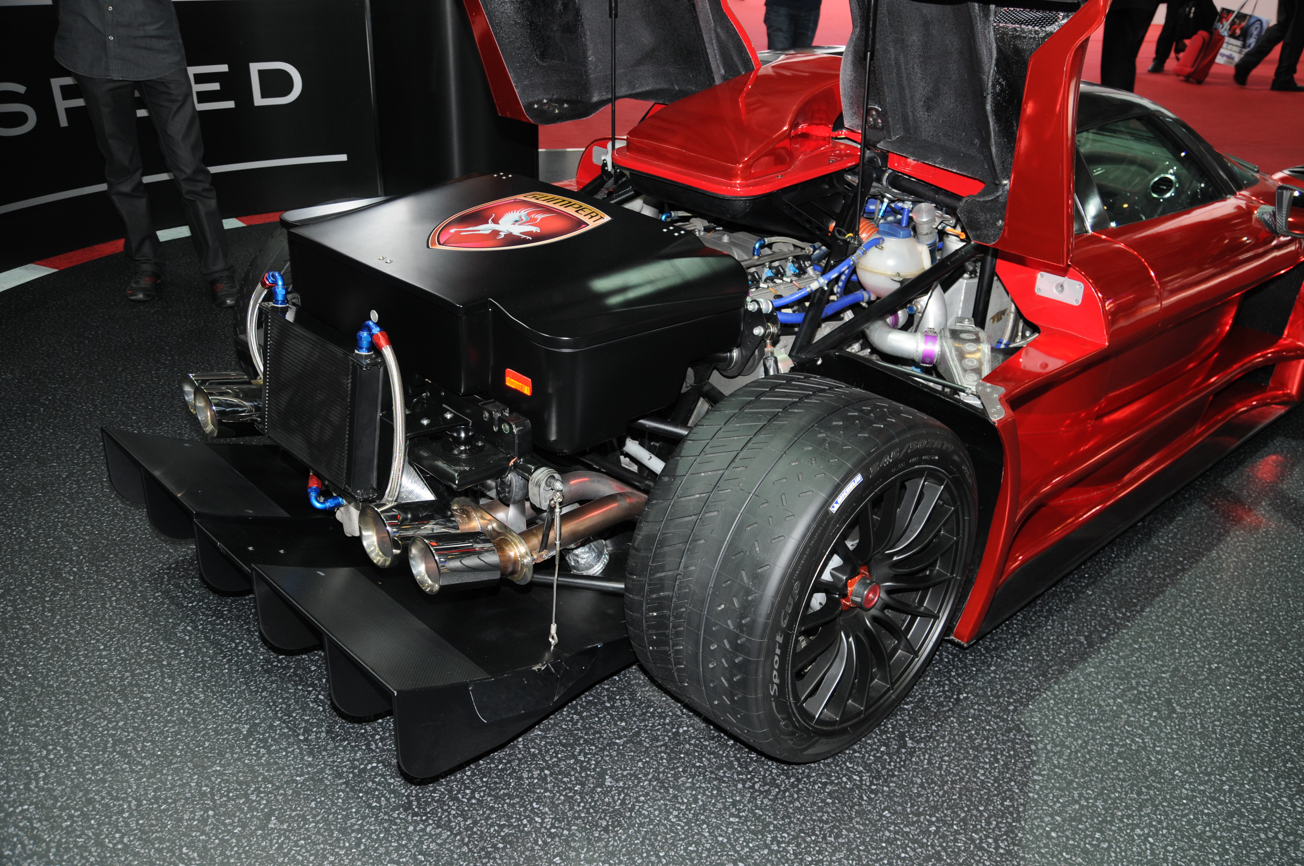 Geneva Motor Show 2014 (photo taken on the first press day)